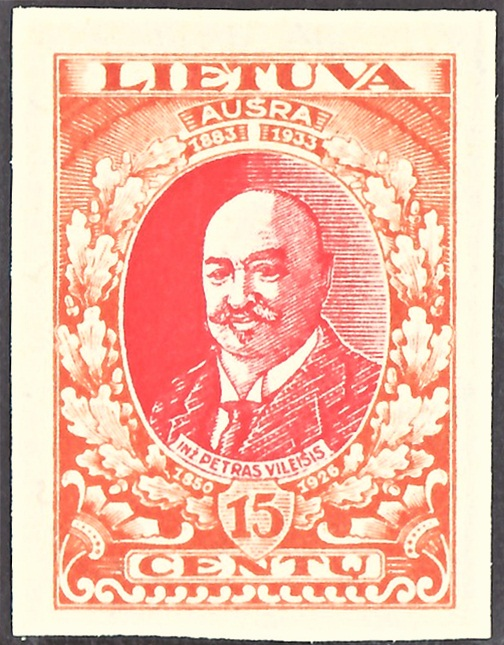 Stamp of Lithuania; 1933; 15 Centų; imperforate; Michel No. 0358B; Special issue to the 50th anniversary of the foundation of the first newspaper in Lithuanian language: "Aušra" (= Aurora) and also special issue in favour of the society "Lietuvos vaikas" (= The Lithuanian Child) - portraits of important employees and editors of "Aušra" Watermark: 8 (lenses) Color: orange / red Nominal value: 15 Centų